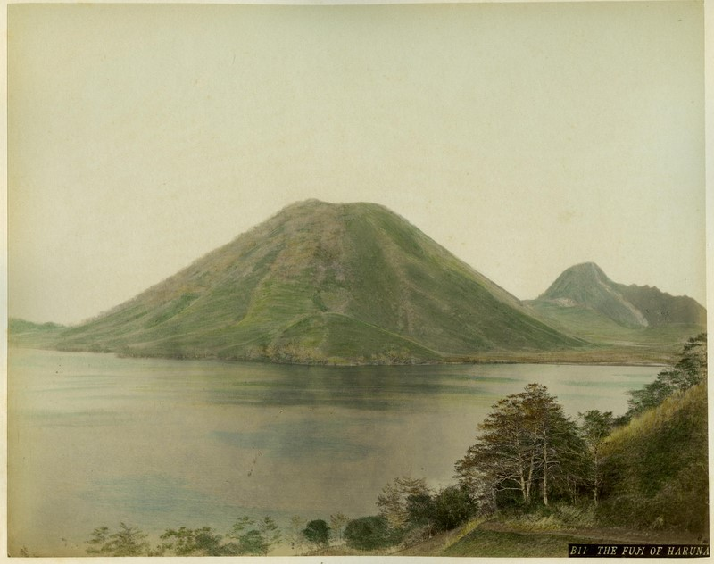 Adolfo Farsari (1841-1898) - "B11 - The Fuji of Haruna".